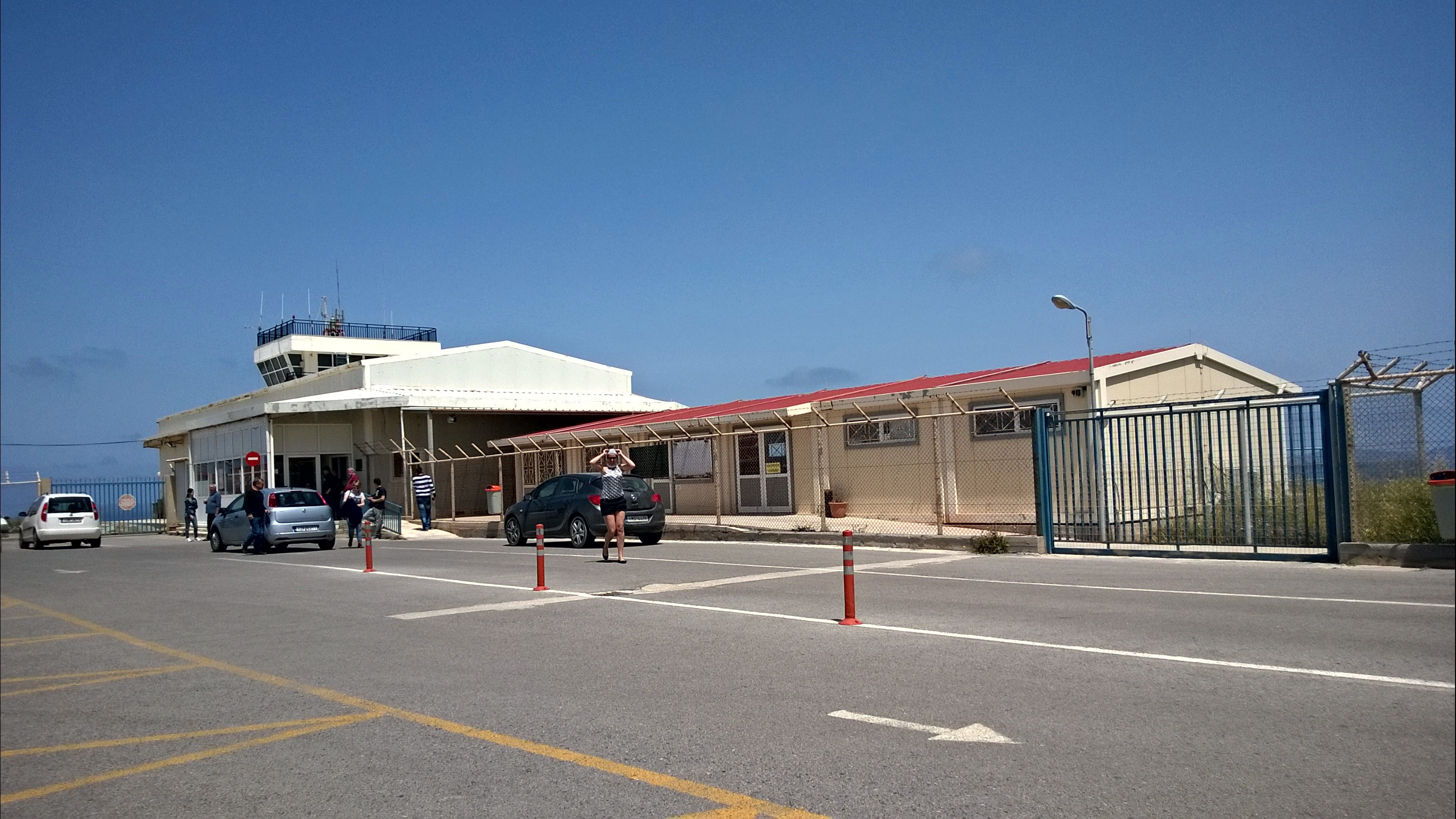 Lasithi